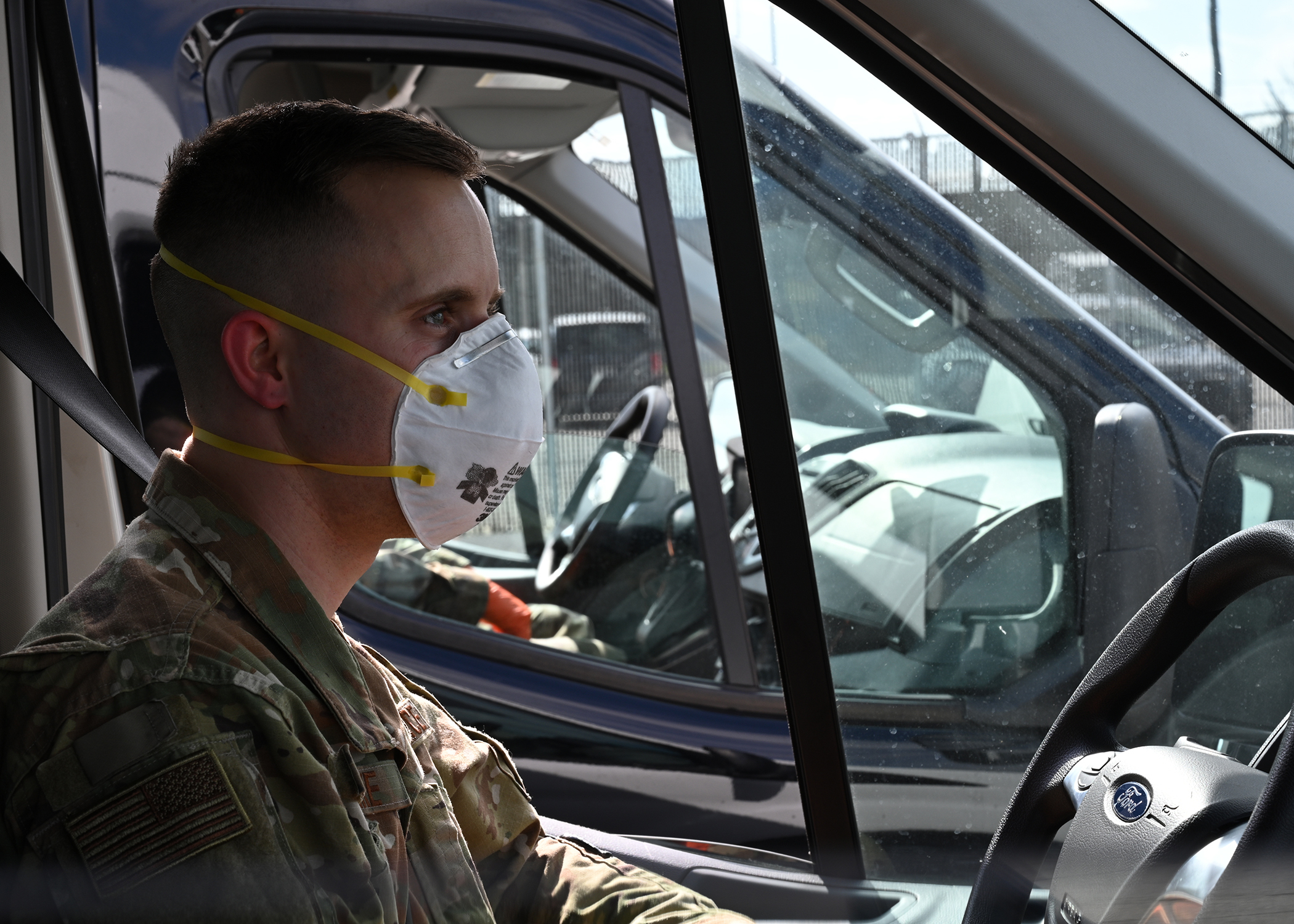 U.S. Air Force Airman First Class Brian Leschke, 175th Maintenance Squadron, Maryland Air National Guard, wears medical personal protective equipment at Baltimore Washington International Airport, March 17, 2020, before transporting passengers from the Grand Princess cruise ship who have been quarantined due to the novel Coronavirus (COVID-19) pandemic. The Maryland National Guard has activated 1,000 personnel with another 1,200 Airmen and Soldiers ready at an enhanced state of readiness. (U.S. Air National Guard photo by Master. Sgt. Chris Schepers)